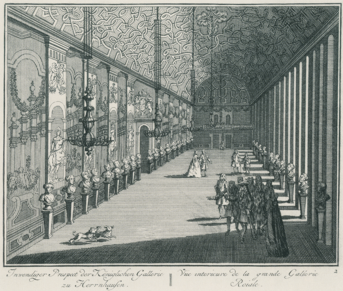 View of the ‛Great Garden’ at Herrenhausen Gardens, Hanover: The Gallery Building, interior view, copperplate engraving, about 1725.